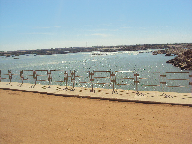 Side of the Merowe Dam shows along the Nile River after the dam3